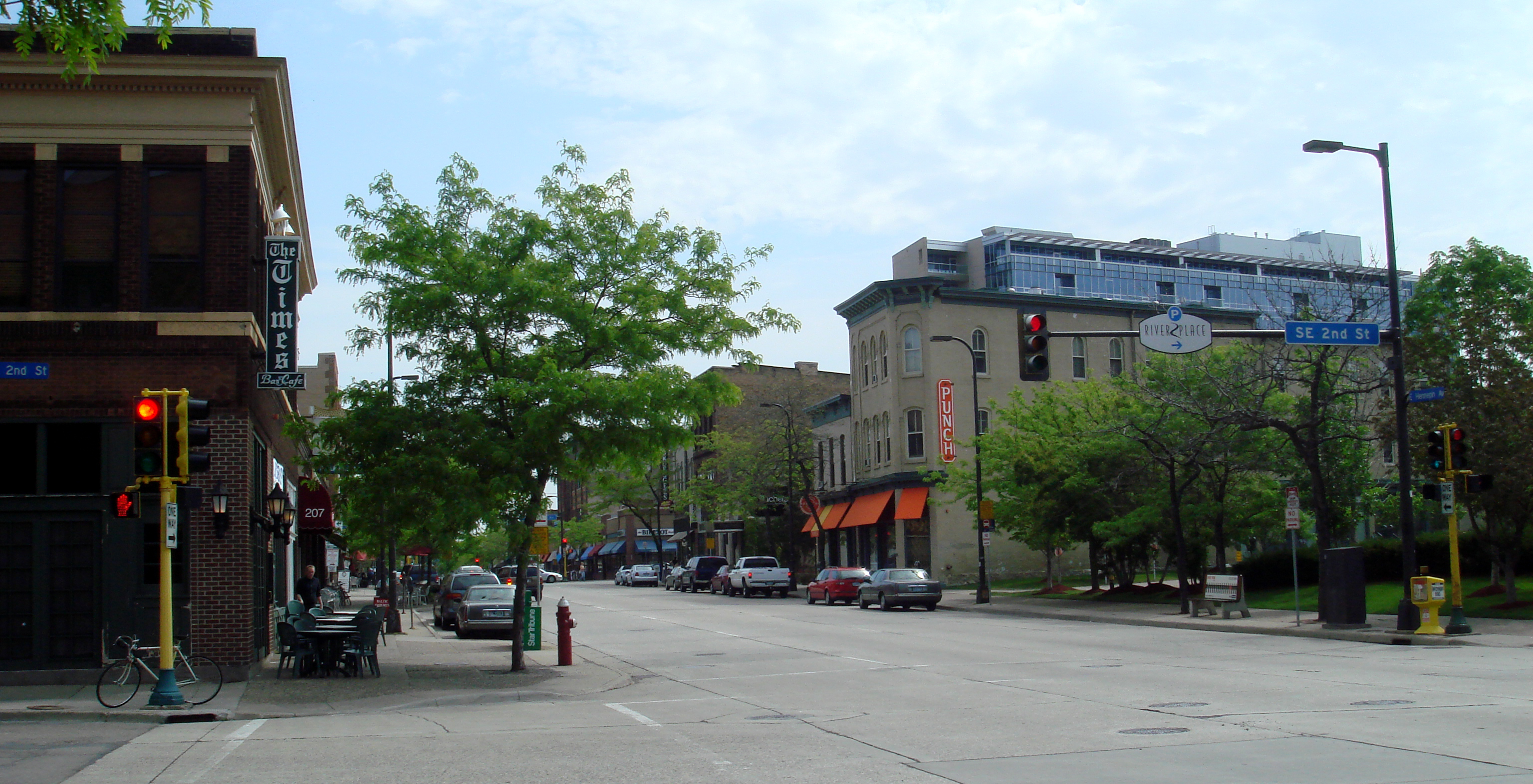 Hennepin Ave. looking north into the Northeast neighborhood, Minneapolis, Minnesota.